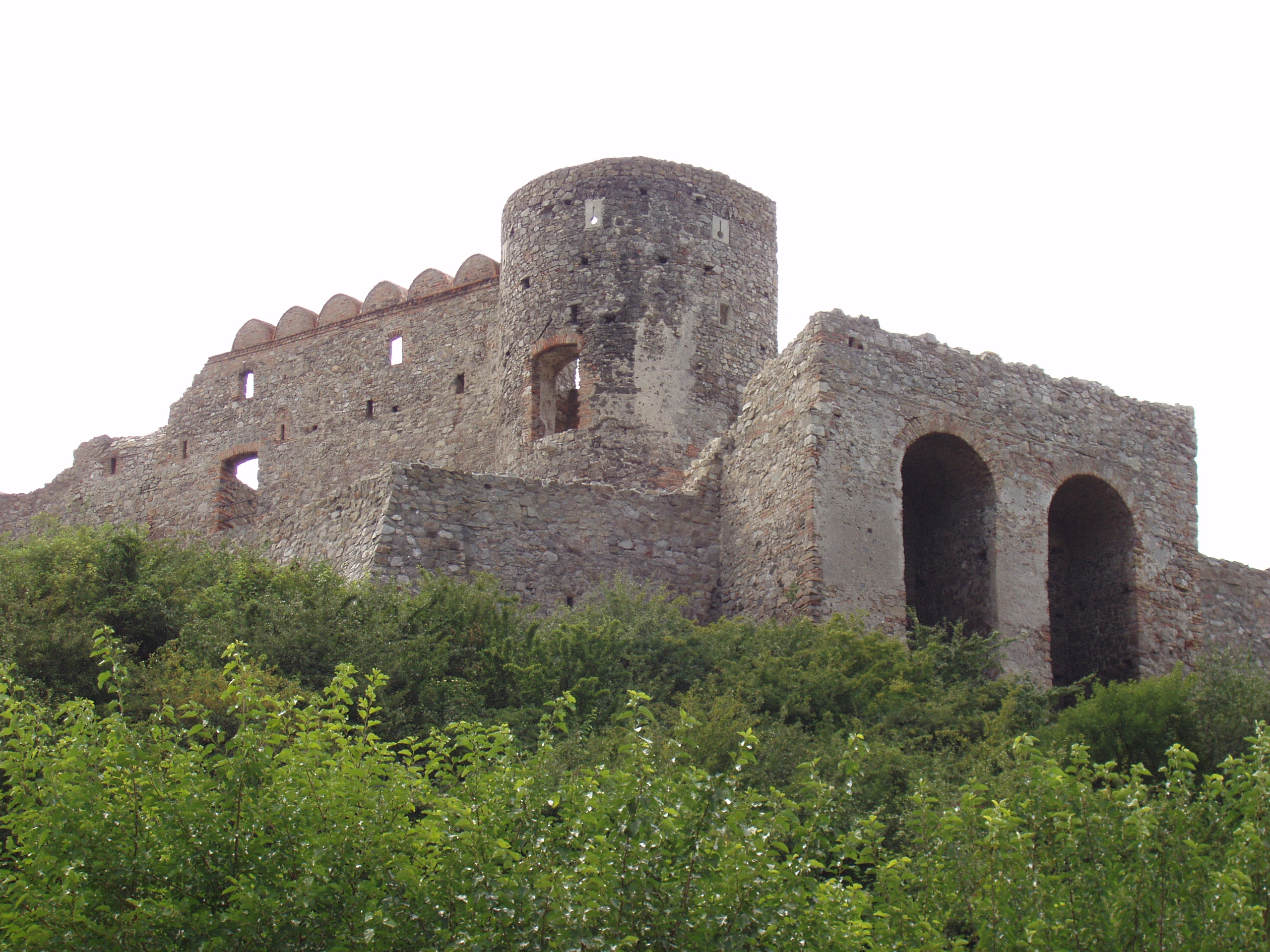 The lower castle, Devín Castle, Slovakia